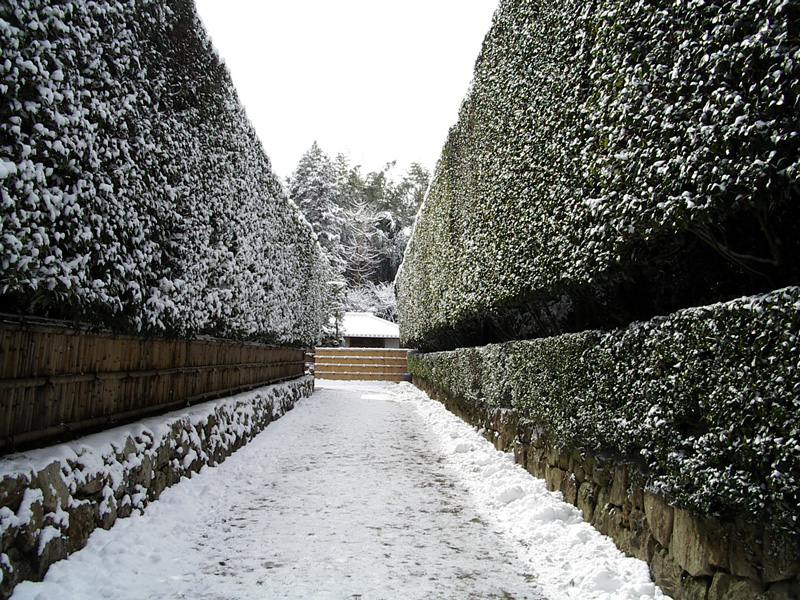 Entrance way of Ginkakuji-temple in a snowy day, Kyoto, Japan. 雪の日の銀閣寺の入り口「銀閣寺垣」